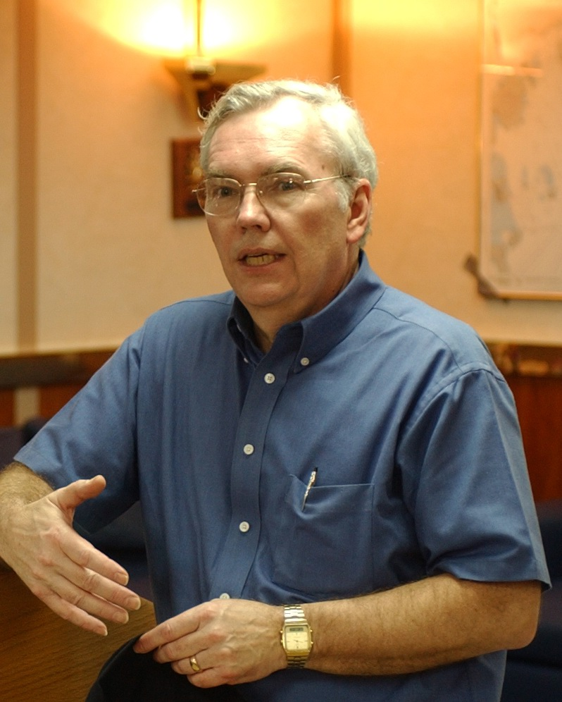 Indian Ocean (Feb. 3, 2005) — U.S. Ambassador to Indonesia, the Honorable B. Lynn Pascoe, speaks to the crew of the Military Sealift Command (MSC) hospital ship USNS Mercy (T-AH-19) during an official visit.